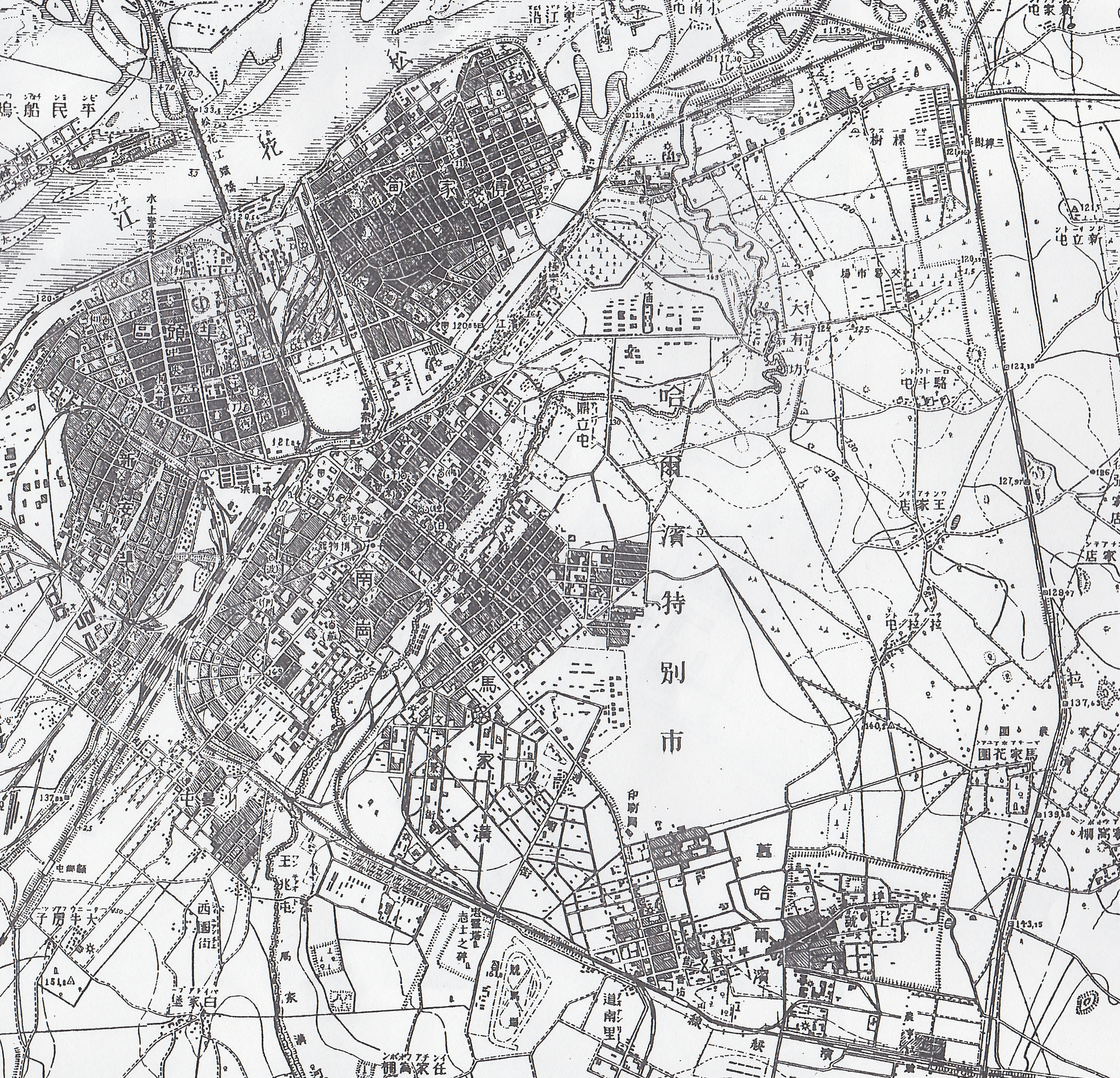 City map of Harbin in 1938